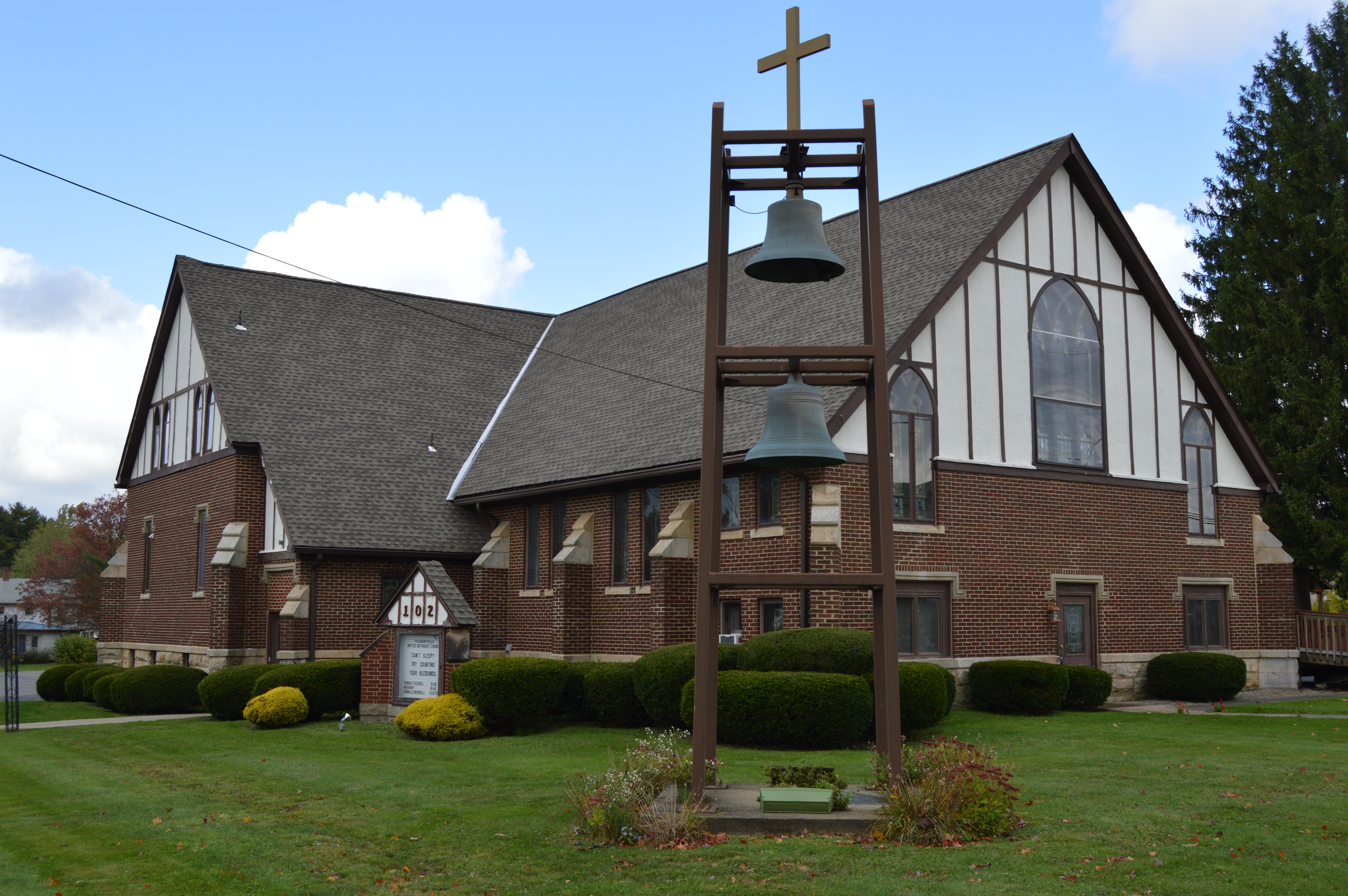 Front and eastern side of the Pleasantville United Methodist Church, located on the northwestern corner of the junction of Main and Merrick Streets in Pleasantville, Pennsylvania, United States.